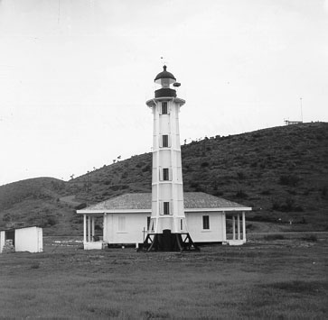 The Windward point lighthouse, at the Guantanamo Bay Naval Base, was installed in 1904. It is sixty feet tall.